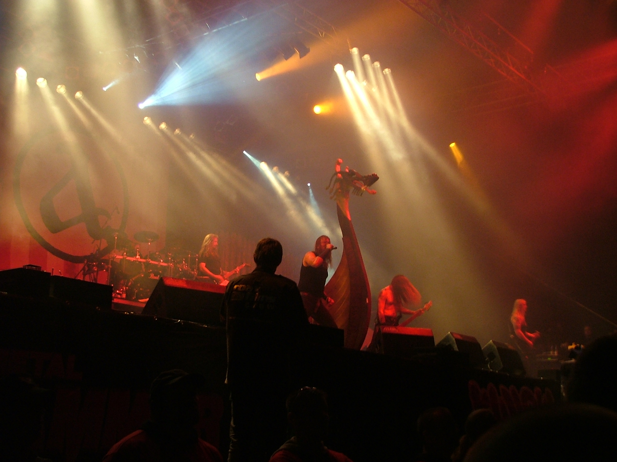 Swedish viking-themed melodic death metal band Amon Amarth at the Summer Breeze in Dinkelsbühl